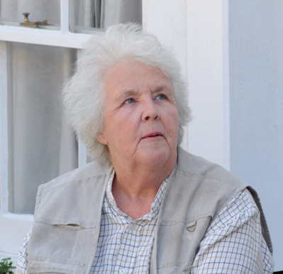 Stephanie Cole on set with Doc Martin Series 4 in Port Isaac